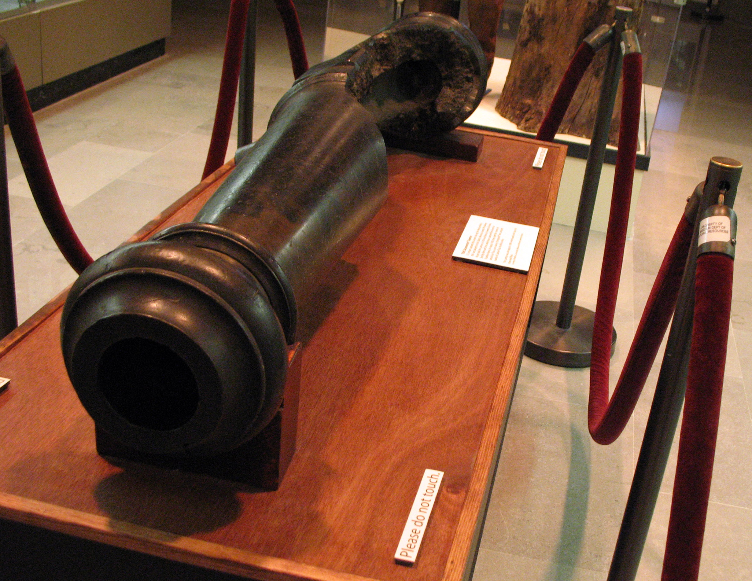 "Old Sacramento Cannon" captured by U.S. during the Mexican-American War in 1847 and taken to the Liberty Arsenal. The cannon was seized by pro-slavery forces in 1856 and fired during the Sacking of Lawrence in 1856. Anti-slavery forces captured it at Franklin, later in 1856. The cannon was damaged in 1896 when it was loaded with clay and straw and fired. It is at the Watkins Community Museum of History in Lawrence. This photo was when it was on loan at the Missouri State Capitol in September 2007. Photo by poster.